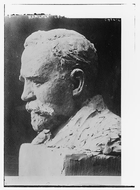 Bust of Soviet politician and Bolshevik revolutionary Lev Kamenev by British sculptor Clare Sheridan. Created in Moscow 1920.